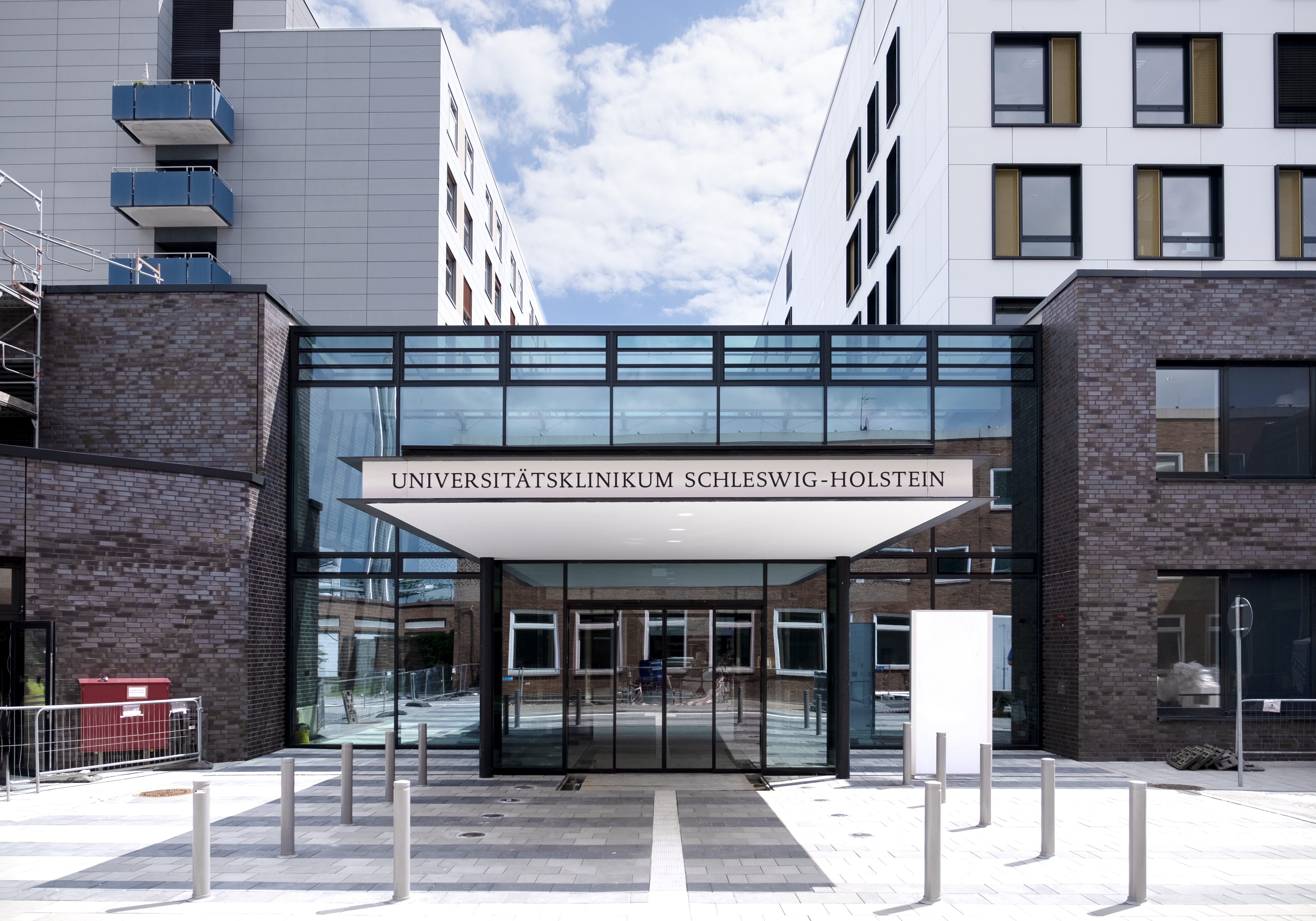 Main gate of University Medical Center